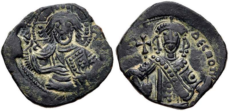 Isaac Comnenus. Usurper in Cyprus, 1185-1191. Æ Tetarteron (20mm, 3.02 g, 6h). Primary mint (Nicosia?). Struck 1187-1191(?). Facing bust of Christ Pantokrator / Crowned facing bust of Isaac, holding cruciform scepter and akakia.